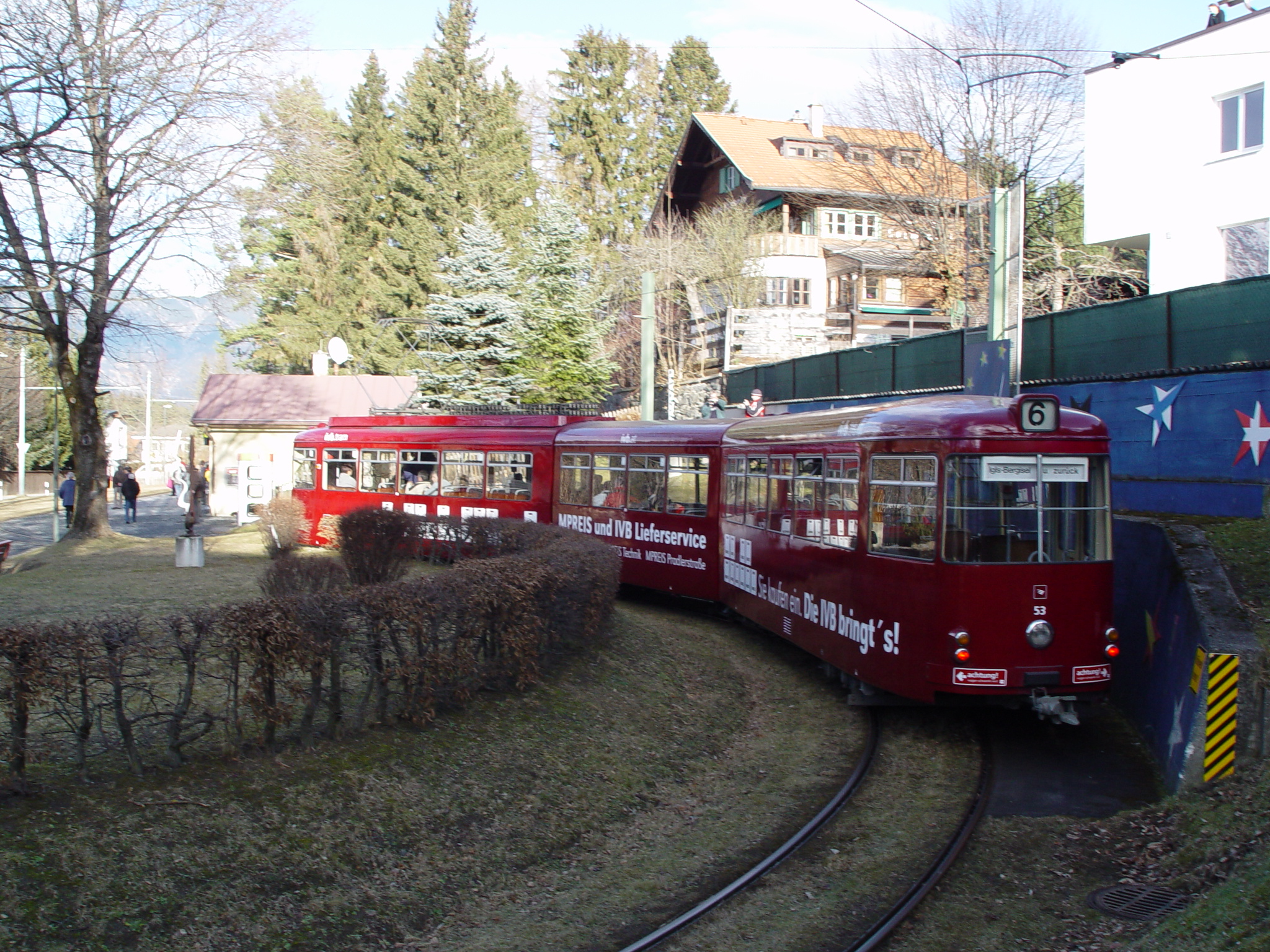 Tram 53, a 1962 Düwag GT8 that was ex-Bielefeld 814, turning in the loop at Igls terminus, the southern end of the Innsbruck–Igls Mittelgebirgsbahn (also designated line 6 of the Innsbruck tram system).